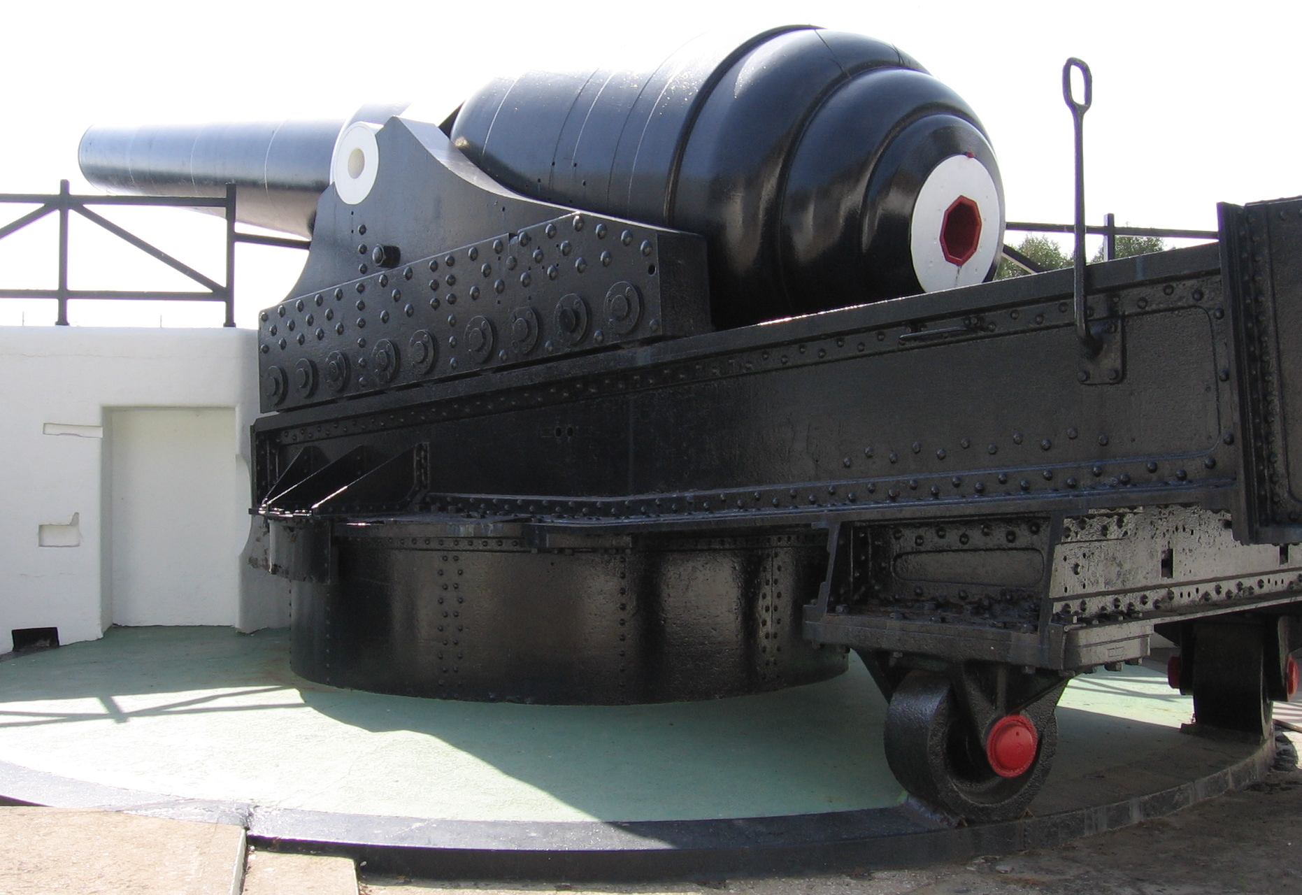 100 Ton Gun "Rockbuster" (built 1883) in Gibraltar